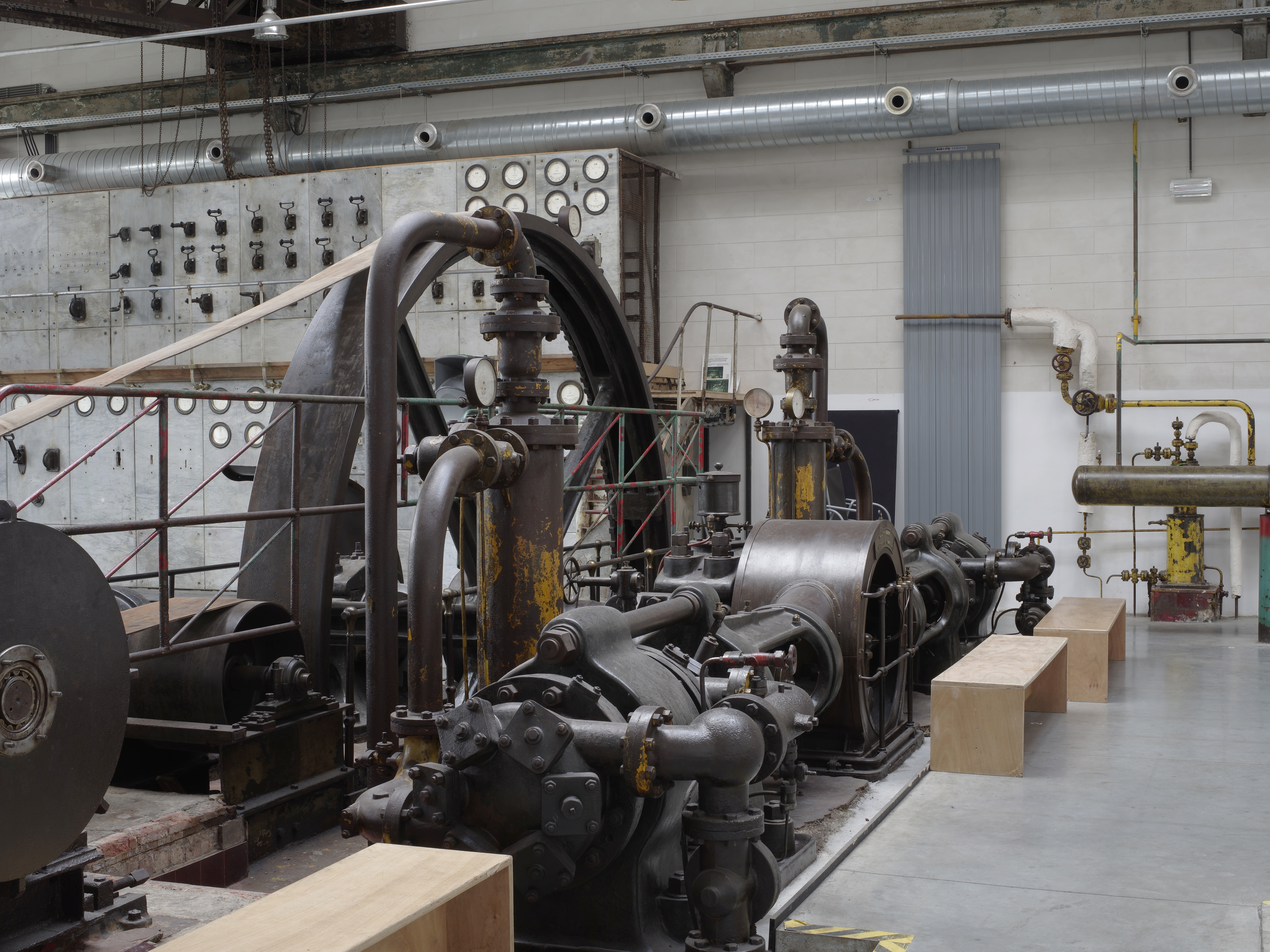 BRASS, the machine room of the former brewery Wielemans-Ceuppens at avenue Van Volxem 364 in 1190 Brussels (Forest).